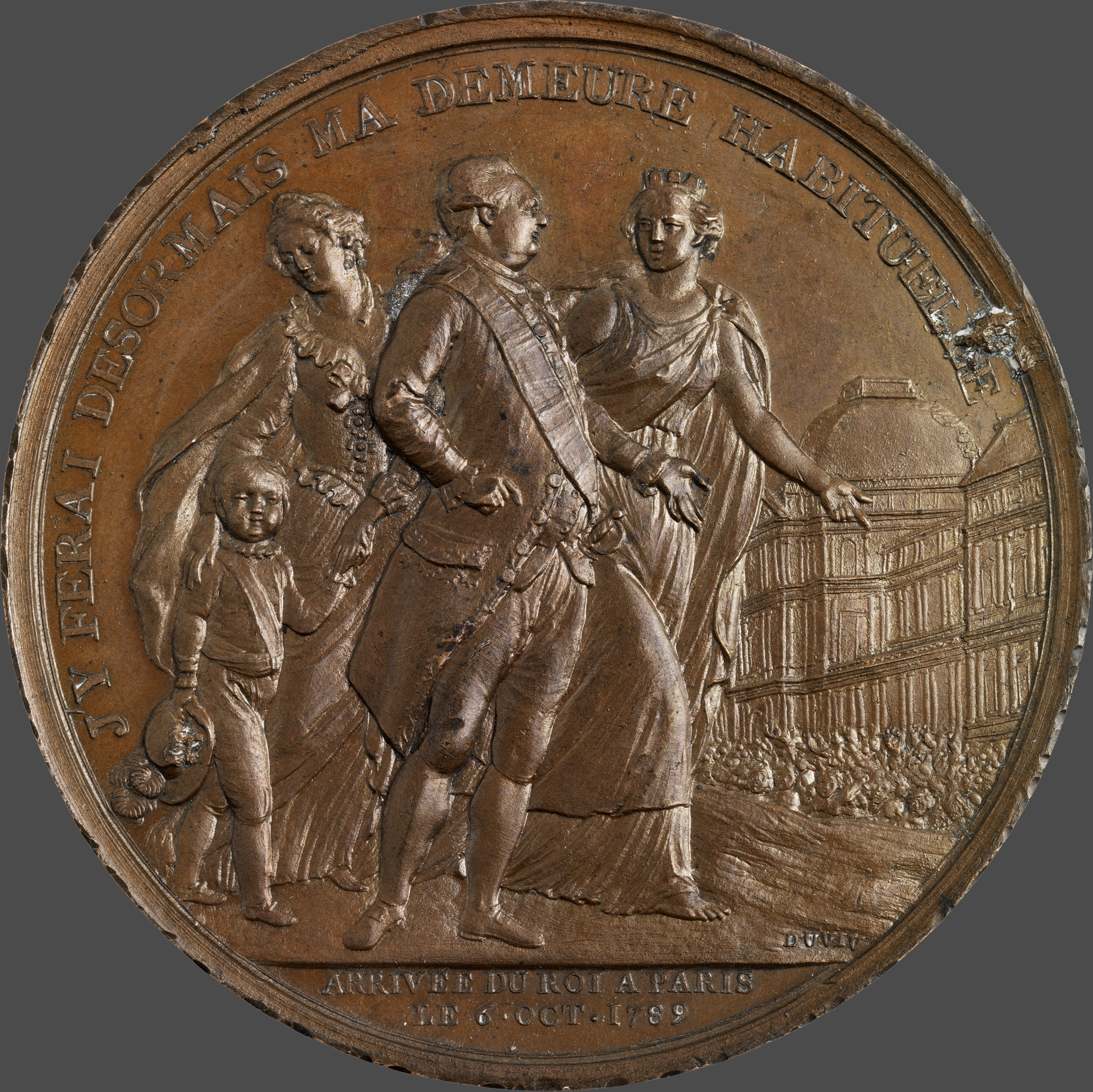 Medal commemorating the return of Louis XVI to Paris - 1789 - Bronze - Archives Nationales, Paris. By Pierre-Simon-Benjamin Duvivier (5 November 1730 - 10 July 1819)